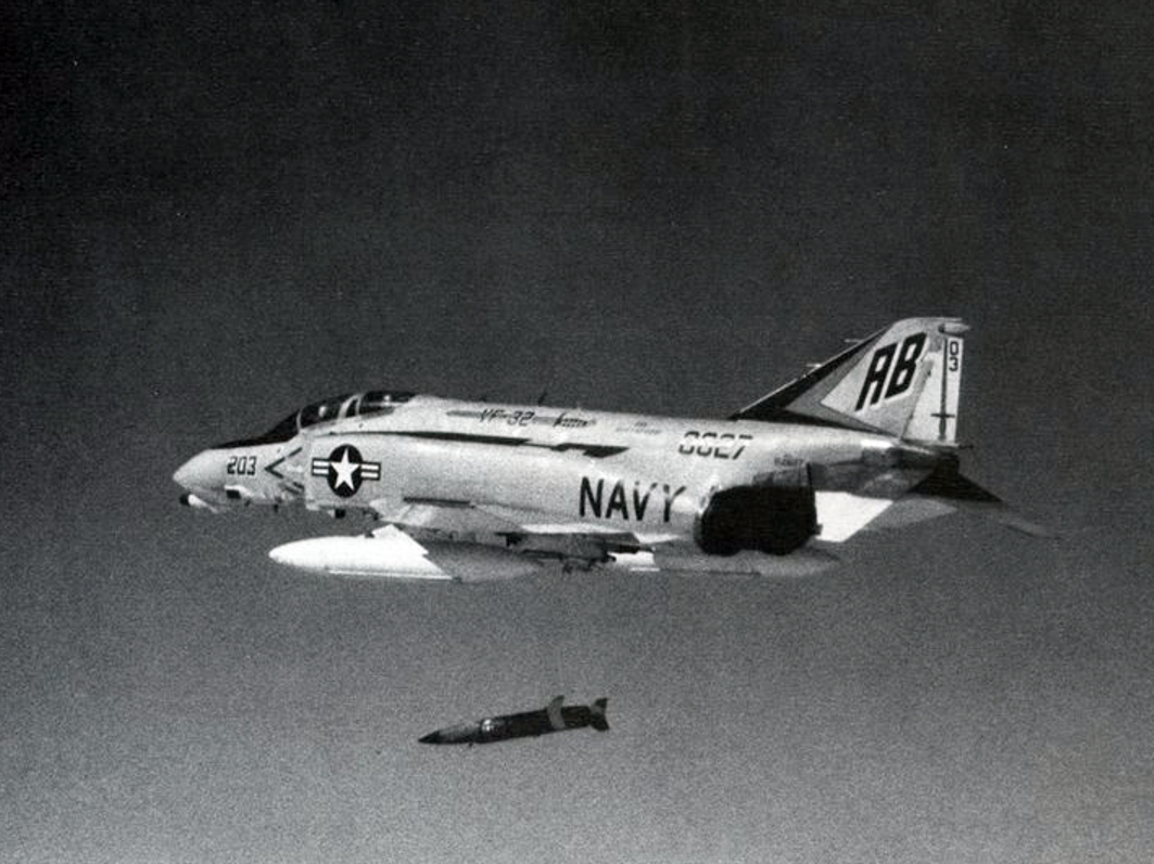 A U.S. Navy McDonnell F-4B-26-MC Phantom II (BuNo 153027) of Fighter Squadron 32 (VF-32) Swordsmen releases an AQM-37 target drone in 1970-71. VF-32 was assigned to Attack Carrier Air Wing 1 (CVW-1) aboard the aircraft carrier USS John F. Kennedy (CV-67) for a deployment to the Mediterranean Sea from 14 September 1970 to 1 March 1971.